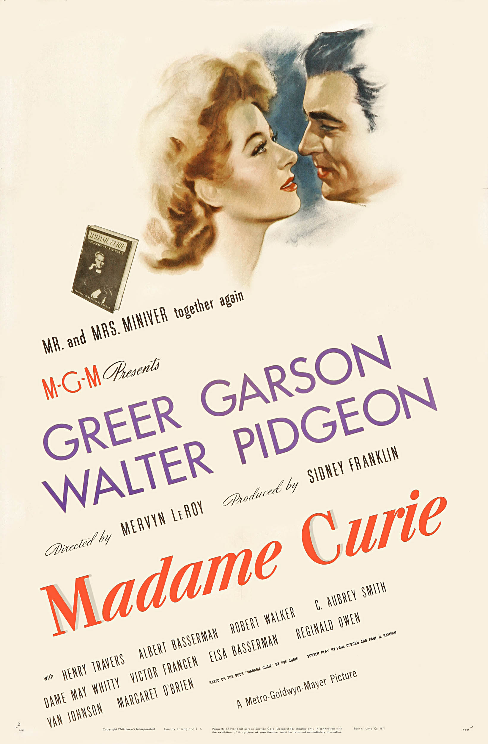 ' (1943) movie poster.